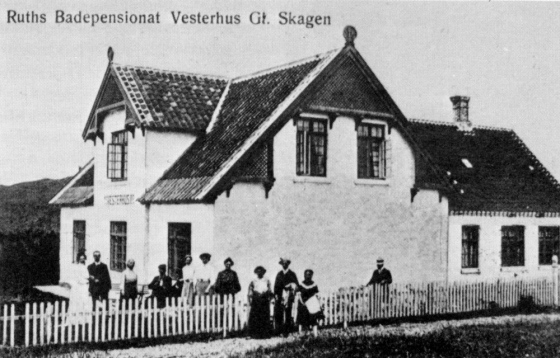 Old photograph of Ruth's Hotel in Skagen, Denmark, first known as Badepensionat Vesterhus.